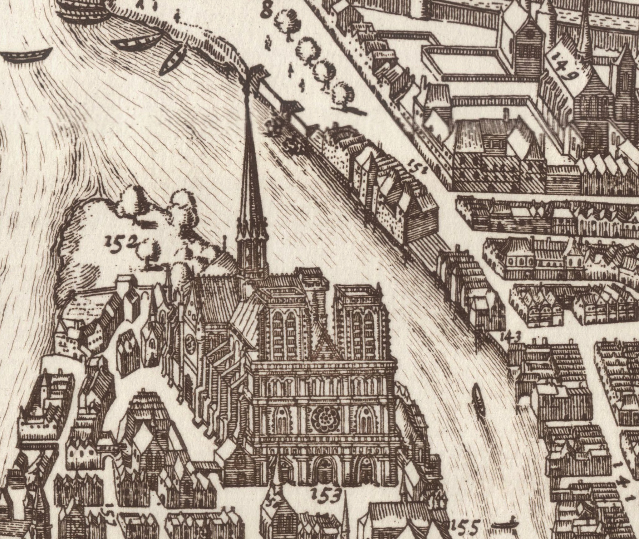 Cathédrale Notre-Dame de Paris in 1618.